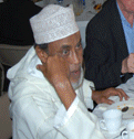 Somali politician Mohamed Yusuf Haji (September 2008).